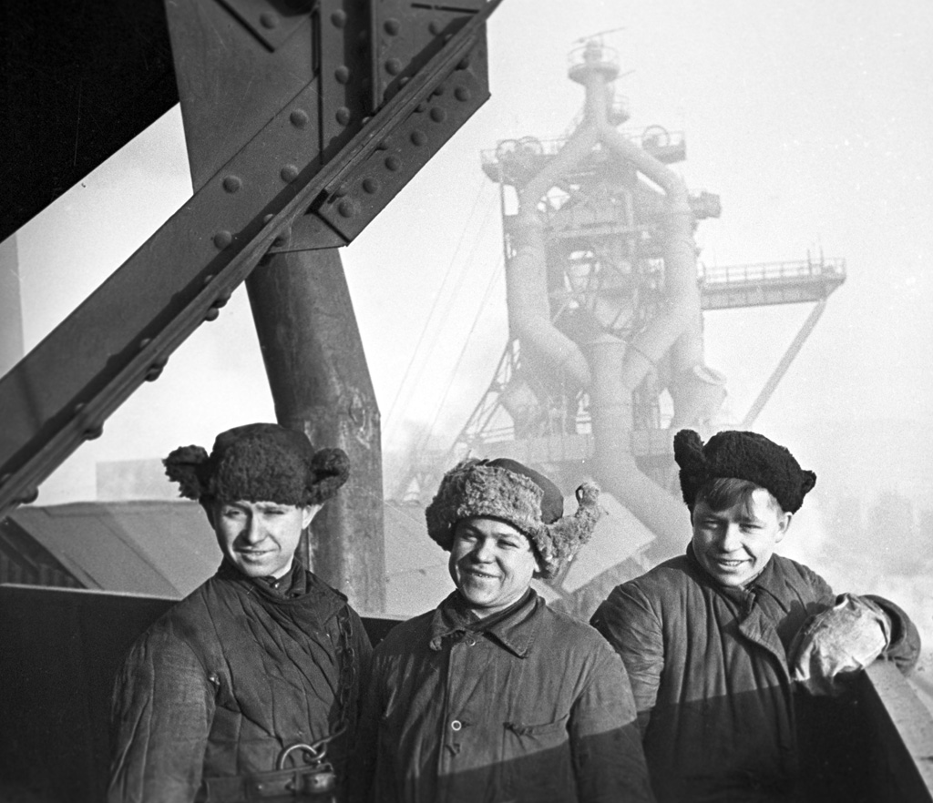 “Magnitogorsk Metallurgical Combine”. Komsomol members at the construction of the sixth furnace of the Magnitogorsk Metallurgical Combine. Photo made in 1943.